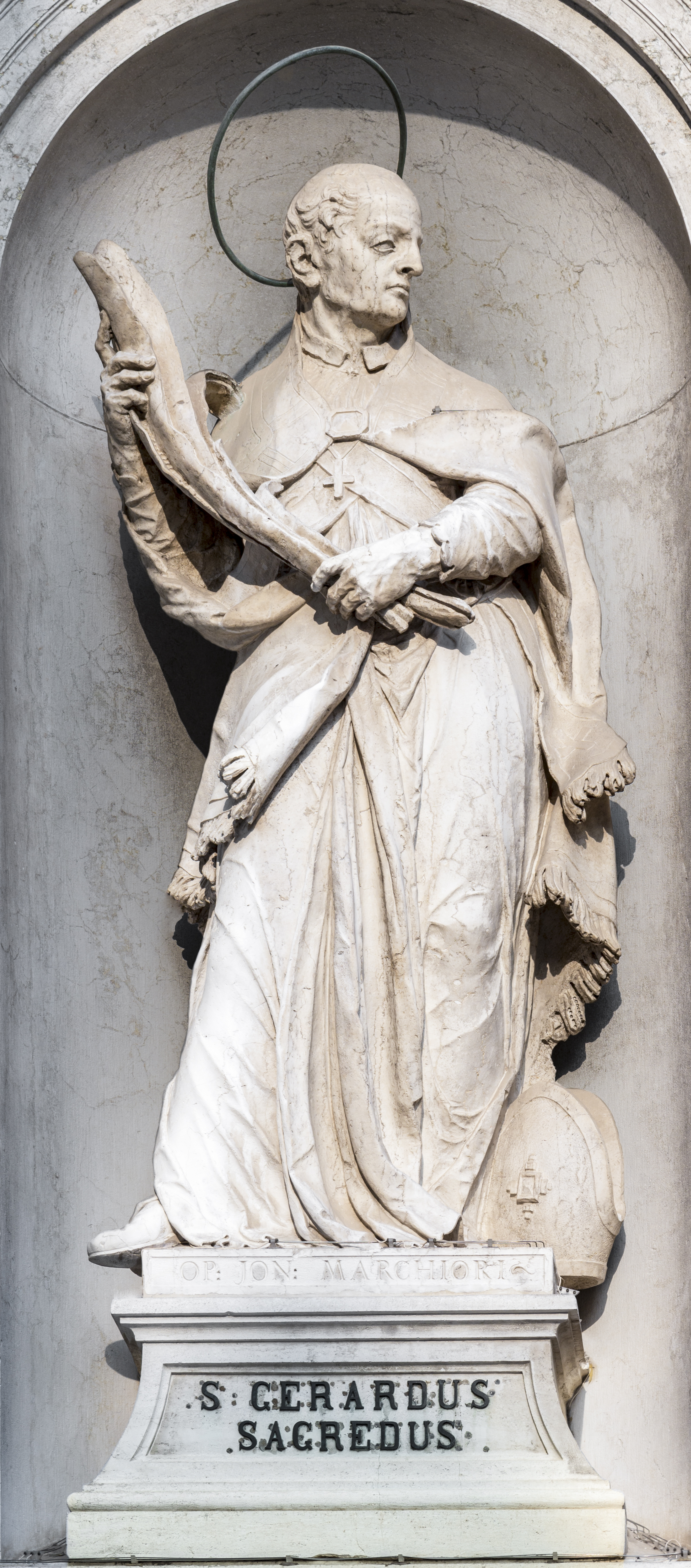 Church of San Rocco in Venice - Facade - Statue of Saint Gerard of Csanád by Giovanni Marchiori.